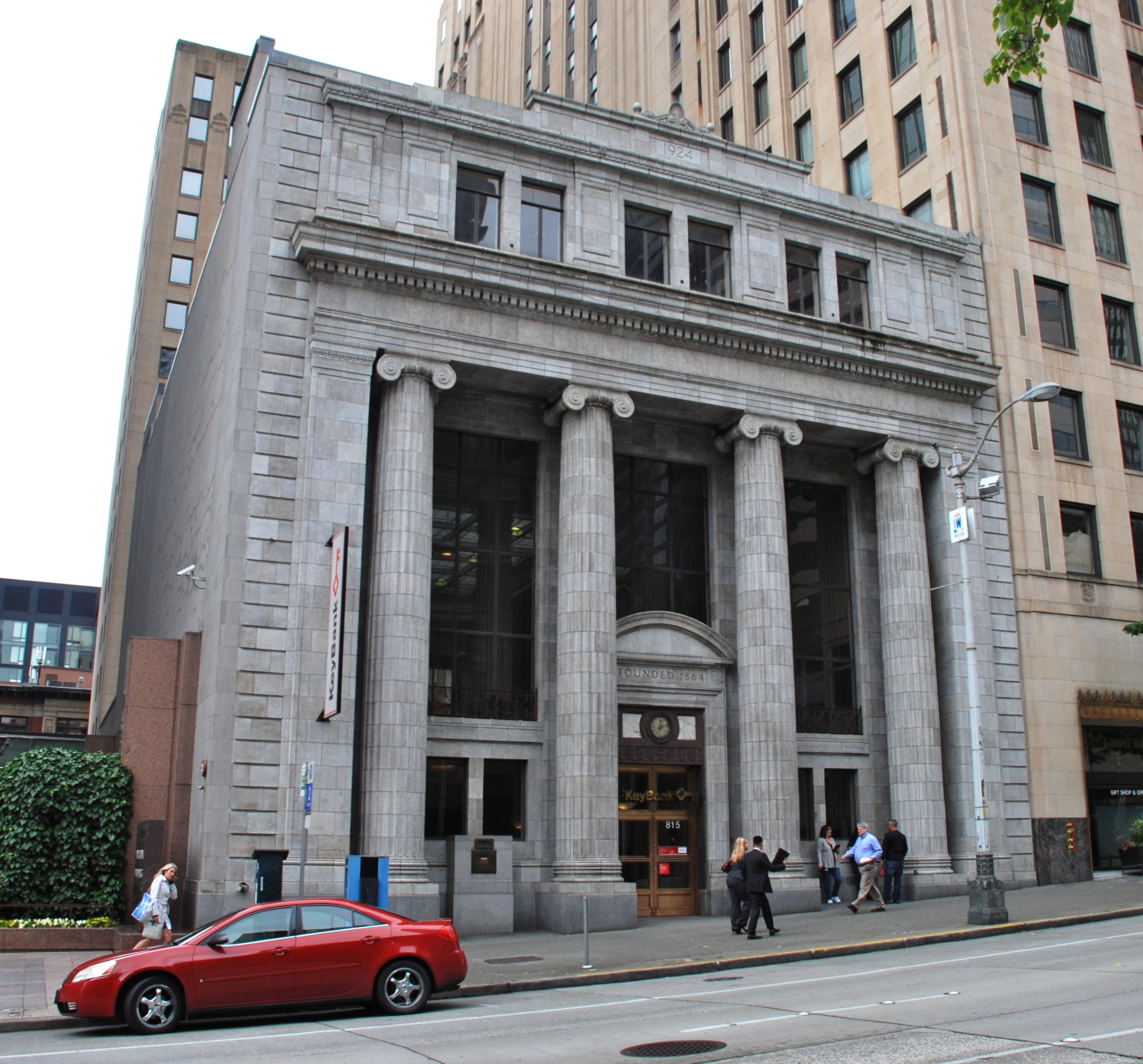 The 1924-built Bank of California Building, at 815 Second Ave. in downtown Seattle, is currently a KeyBank branch. The building was designated a Seattle Landmark in 1987.